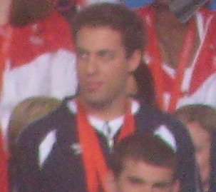 Gold Medal United States Beijing Olympics Men's 4 x 100 metre freestyle relay team at September 3, 2008 taping of season-opening September 8, 2008 Oprah Winfrey Show at the Jay Pritzker Pavilion.